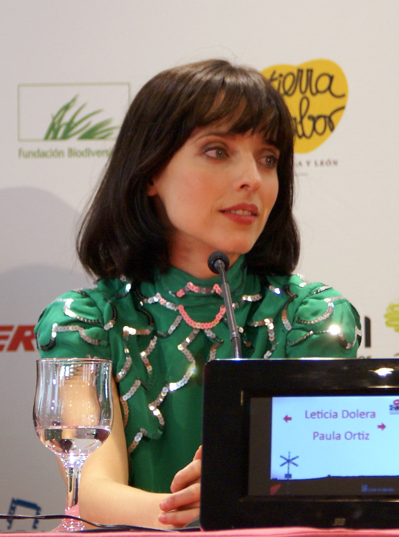 Leticia Dolera, Spanish actress.